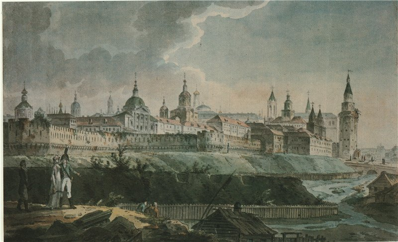 View of Kitai-gorod from the ruins of the Cannon yard. Watercolor of the early XIX century by an unknown artist.